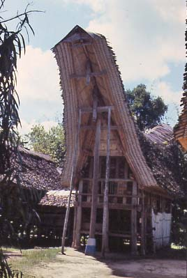 Toraja house (tongkonan). Toraja is an ethnic group in West and South Sulawesi, Indonesia.